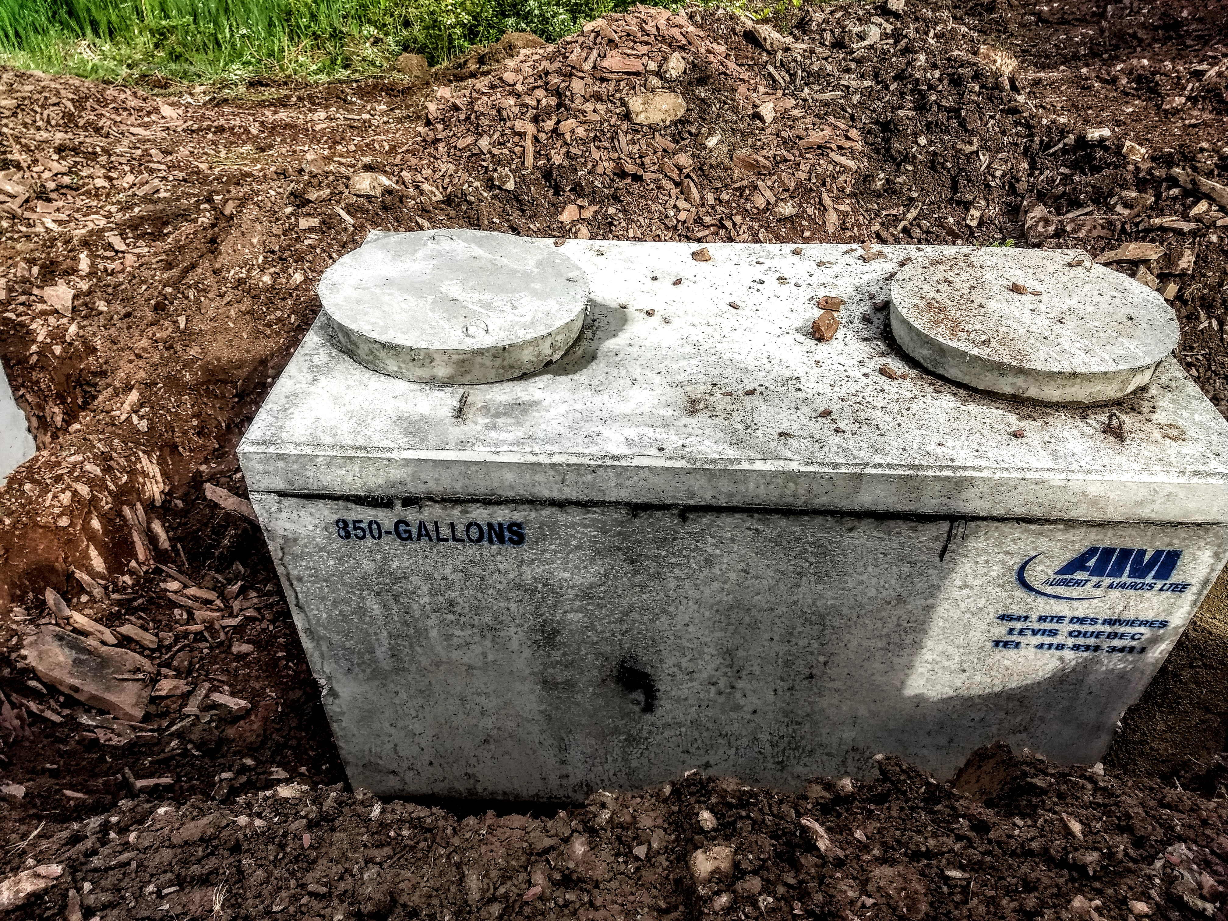 A 850 gal. septic tank is being put in place. The next step is to plug it to the wastewater pipe and backfill everything.